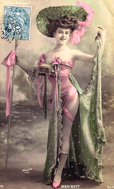 Marinett, Folies Bergères costume, from postcard, first decade of 20th century